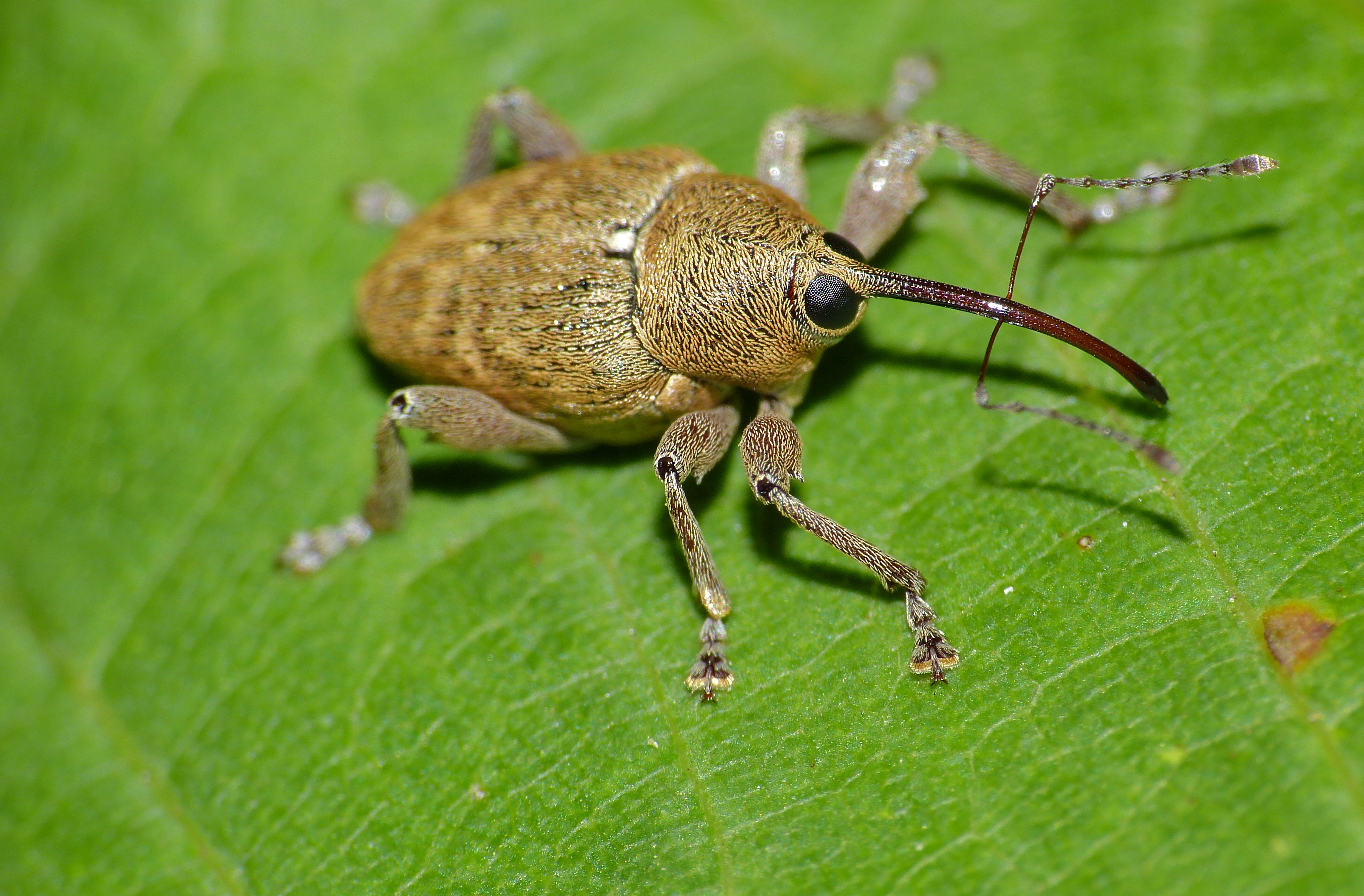 St Vallier-de-Thiey, Alpes-Maritimes, FRANCE